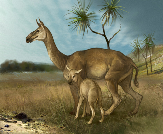 I, Kobrina Olga, have drawn reconstruction on skeleton. If you want to use it on other sites, please, give the reference to its image here and authorship.